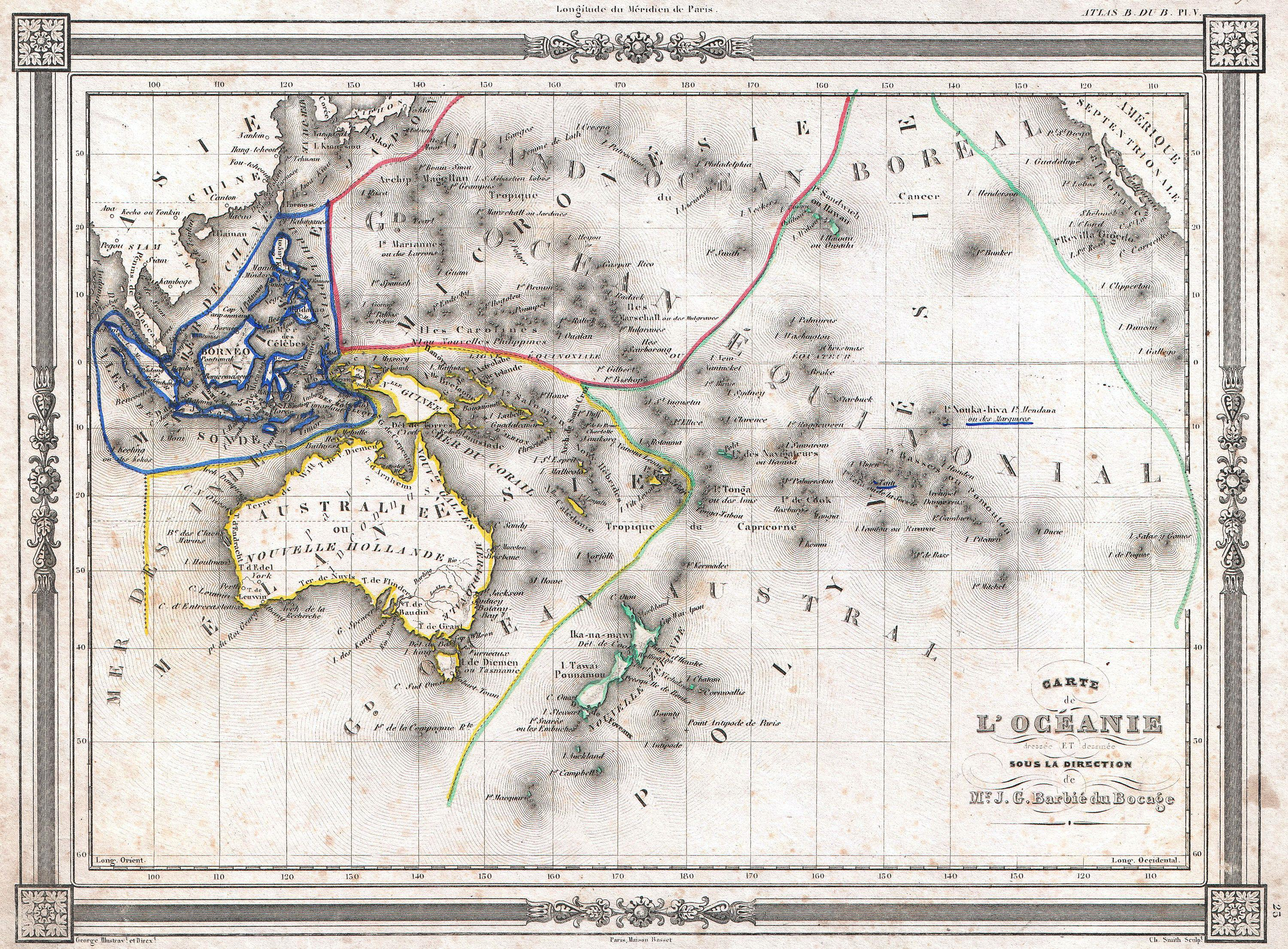 An uncommon and extremely attractive 1852 map of Oceania by J. G. Barbié du Bocage. Includes Australia, New Zealand, Polynesia, Micronesia, Melanesia and Malaysia. Australia is described as “pays inconnu” and alternately labeled “New Holland”. Hawaii shown as the “Sandwich Islands”. Features a beautiful frame style border. Prepared by J. G. Barbie du Bocage for publication as plate no. 25 in Maison Basset’s 1852 edition of the Atlas Illustre .